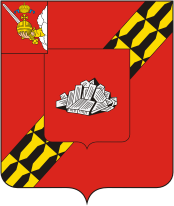 Coat of arms Ustyuzhna and Ustugnovsky District